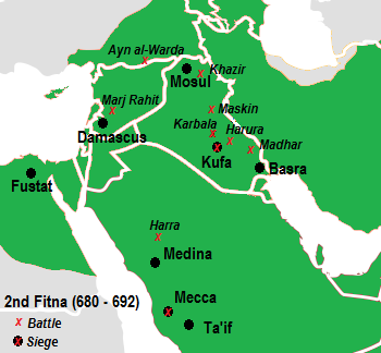 Borders and background from File:Map of expansion of Caliphate.svg. Locations and labels based on: 1) Donner, Fred M. (2010). Muhammad and the Believers, at the Origins of Islam. Cambridge, Massachusetts: Harvard University Press. p. 156. ISBN 978-0-674-05097-6. 2) L. Veccia Vaglieri. "Harura" in EI2. Vol. 3. p. 235